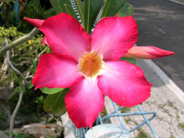 Adenium obesum Sabi Star, Kudu, Desert-rose